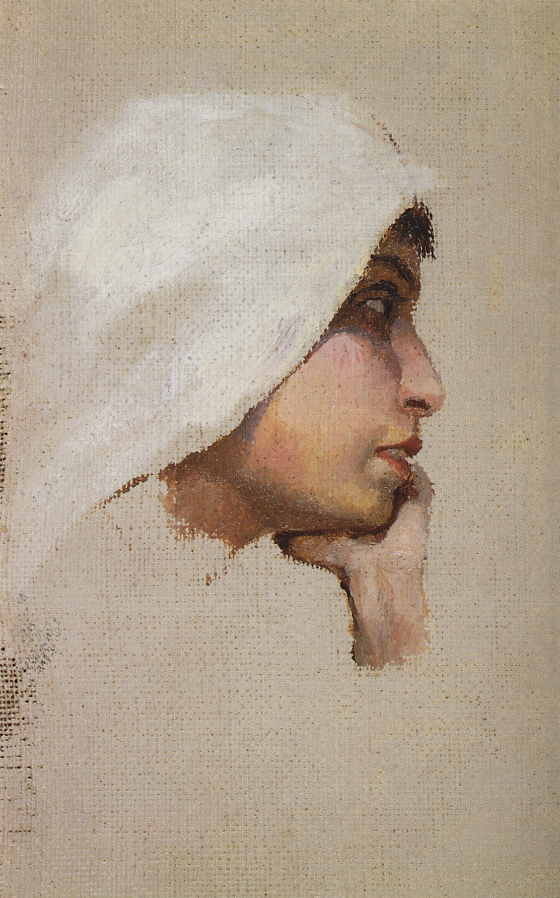 Head of a young woman in a white veil (study by Vasily Polenov for the 1888 painting "Christ and the woman taken in adultery")